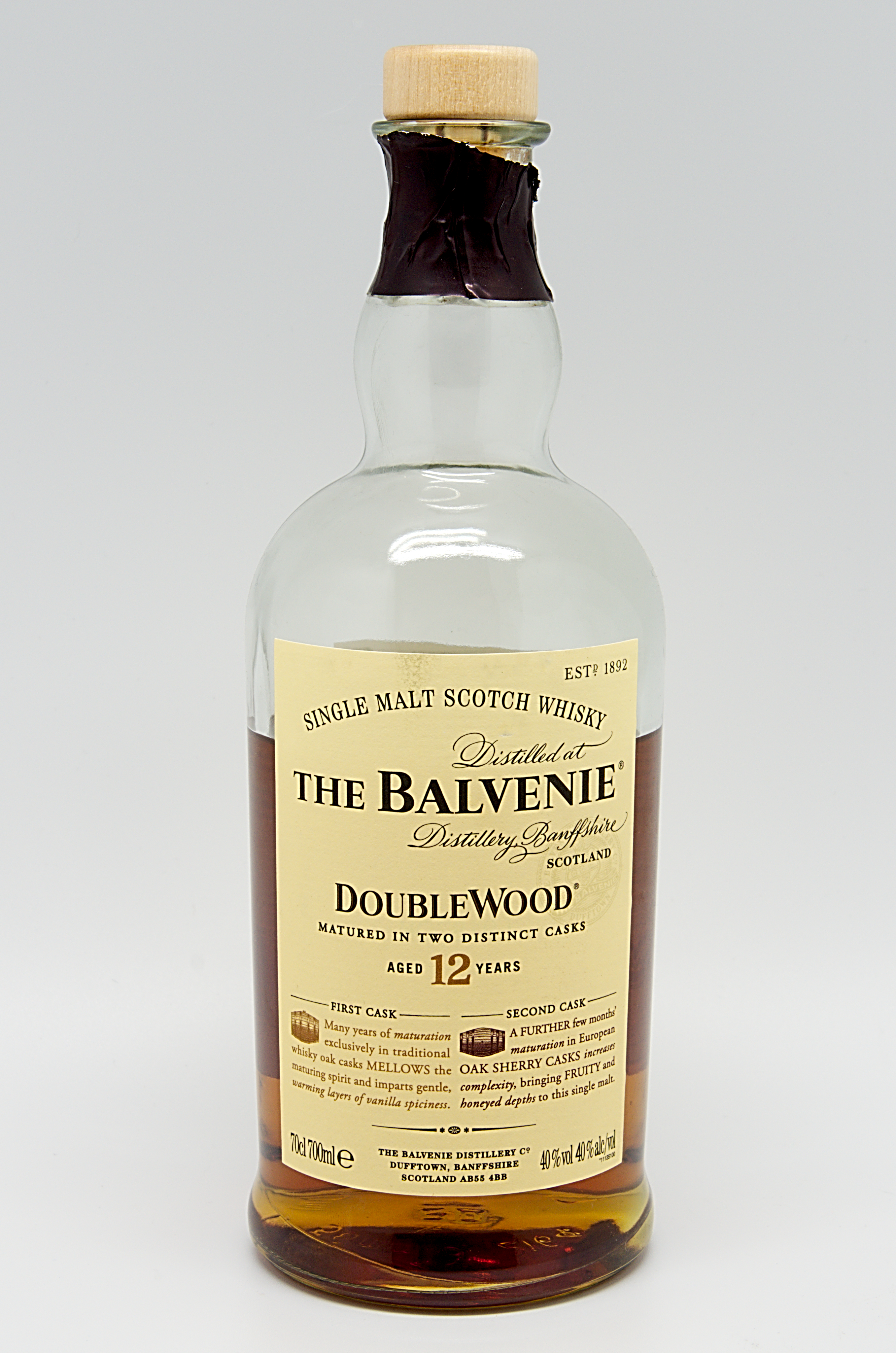 The Balvenie bottle